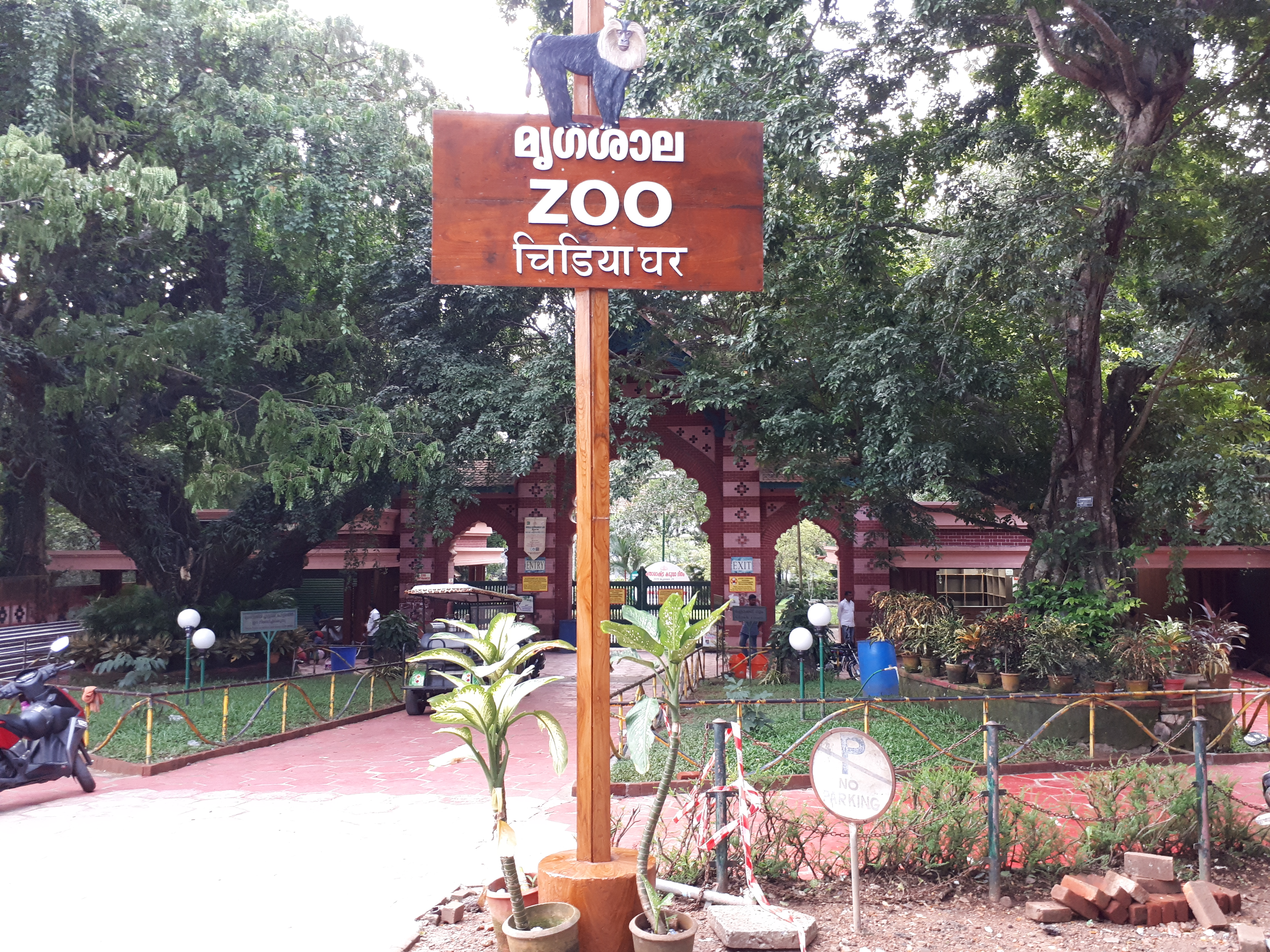 zoo